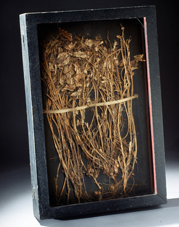 George Washington Carver-peanut specimen. Complete mounted peanut plant collected by Carver. Tuskgee Institute National Historic Site, TUIN 1811.